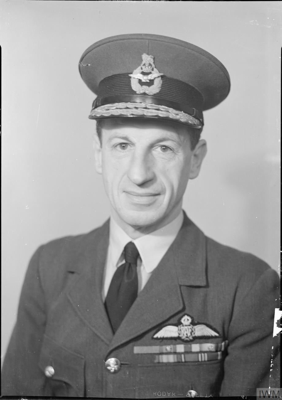 Air Chief Marshal Sir Charles Portal, 1941 A head and shoulders portrait of Air Chief Marshal Sir Charles Portal.